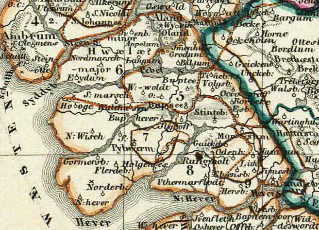 presumed coastline after Danish Census Book; modern coastline shown in bold lines